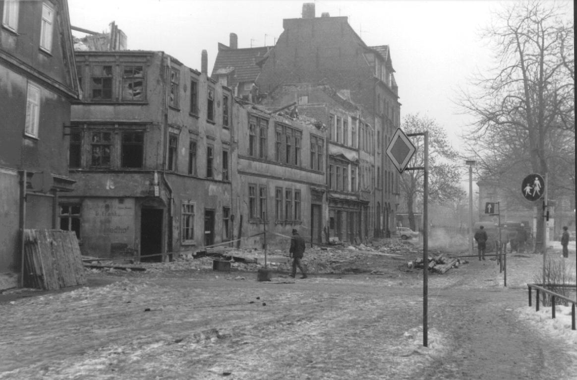 In the inner city of Eisenach, preparing a new settlement.